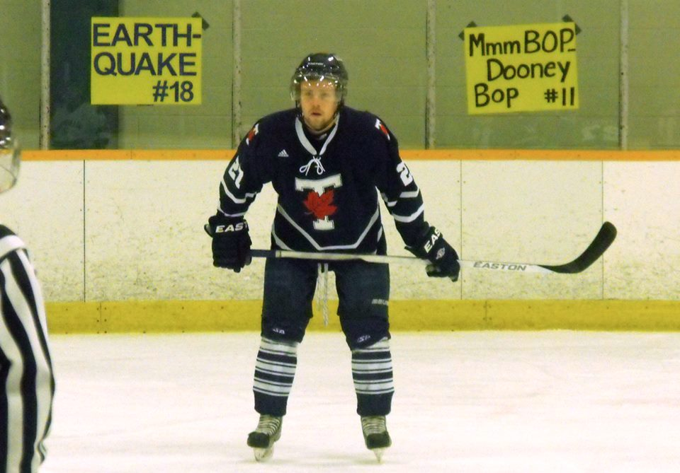 This photo was taken by Devan Mighton during the 2013-14 CIS men's season.